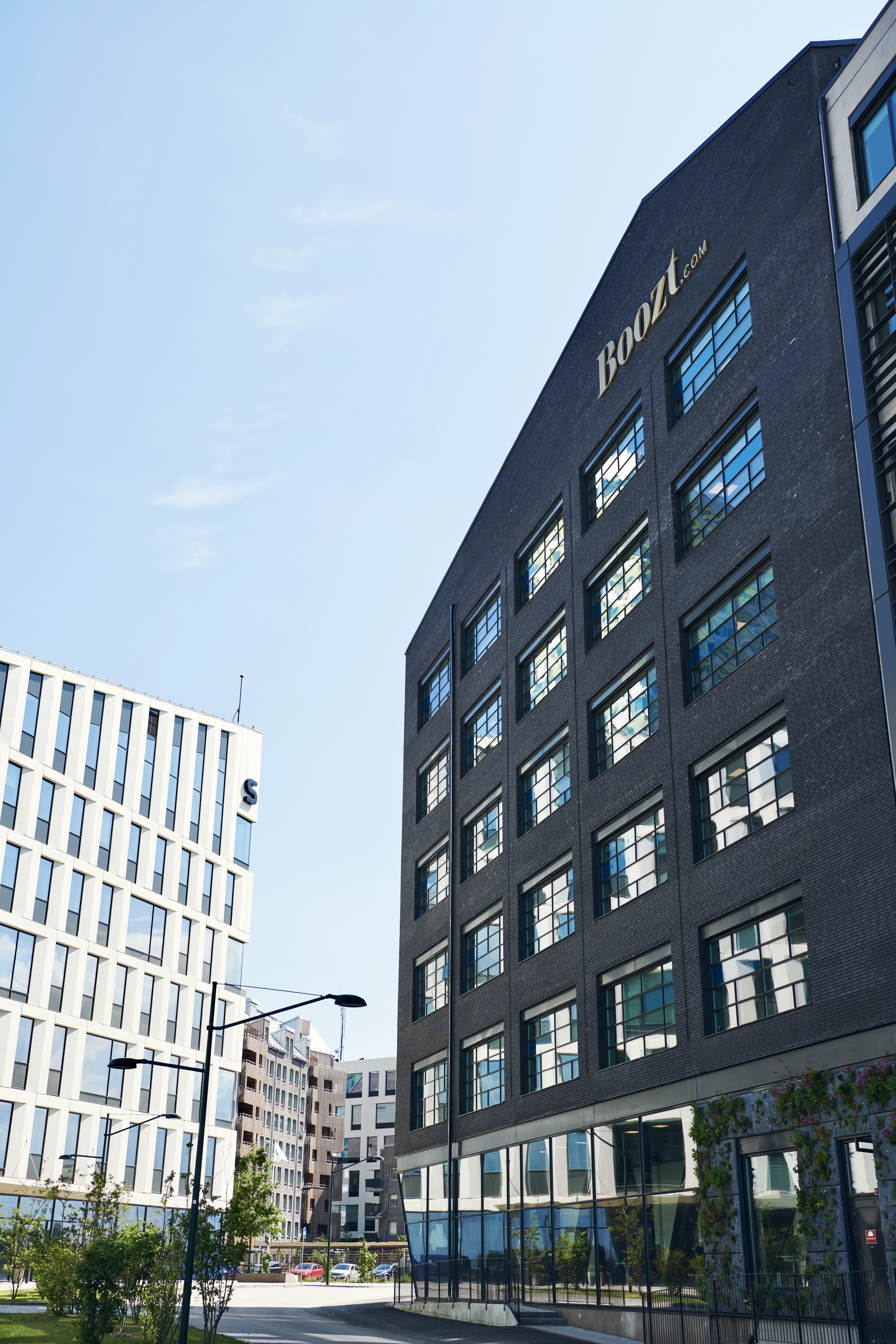 This is a photo of the Boozt Fashion office building in Hyllie, Malmö. Taken in March 2019